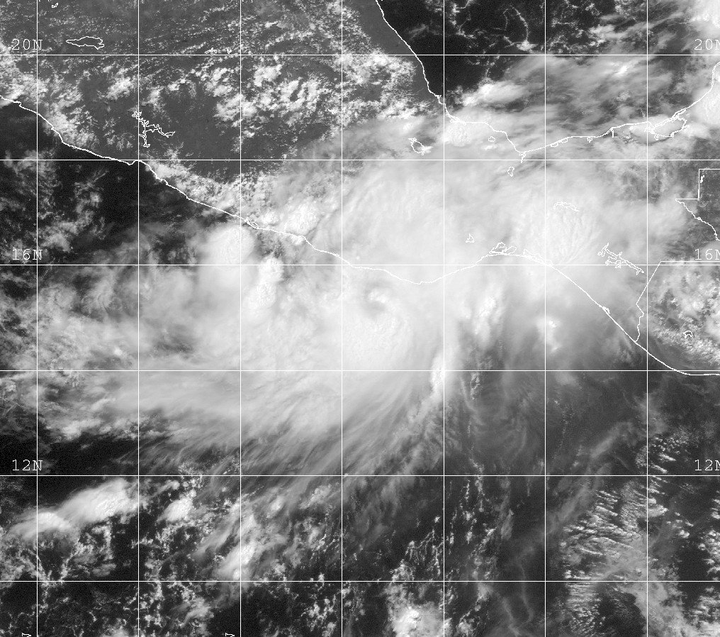 Tropical Storm Carlos just before landfall in Mexico on June 26, 2003.